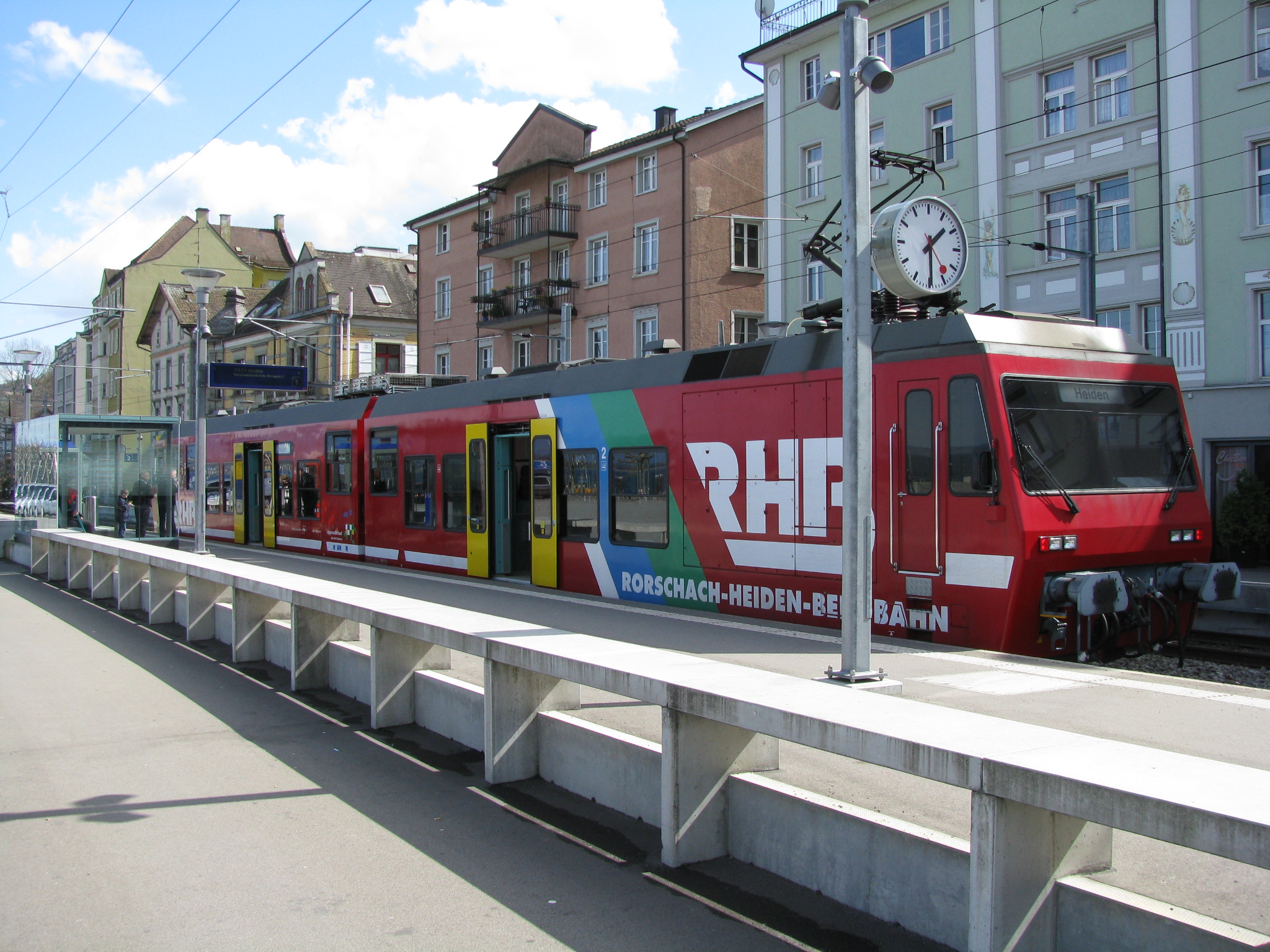 BDeh 3/6 25 of the Rorschach-Heiden-Bergbahn at the harbour of Rorschach